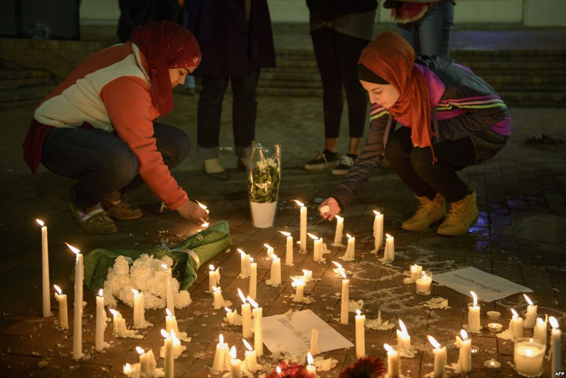 People stand by as a makeshift memorial is made after vigil at the University of North Carolina following the murders of three Muslim students, in Chapel Hill, North Carolina, Feb. 11, 2015.